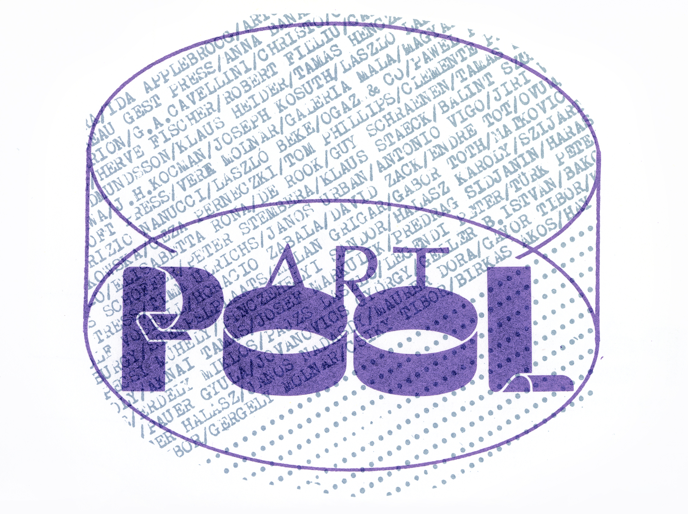 caption on the back: ARTPOOL is the newest archive. ARTPOOL collects: documentations, photos, prints, slides, texts, magazines, books, catalogues, postcards, stamps, T-shirts, ideas, projects, utopias, tapes and diverse new media. ARTPOOL is an information basis. Document your activity in ARTPOOL